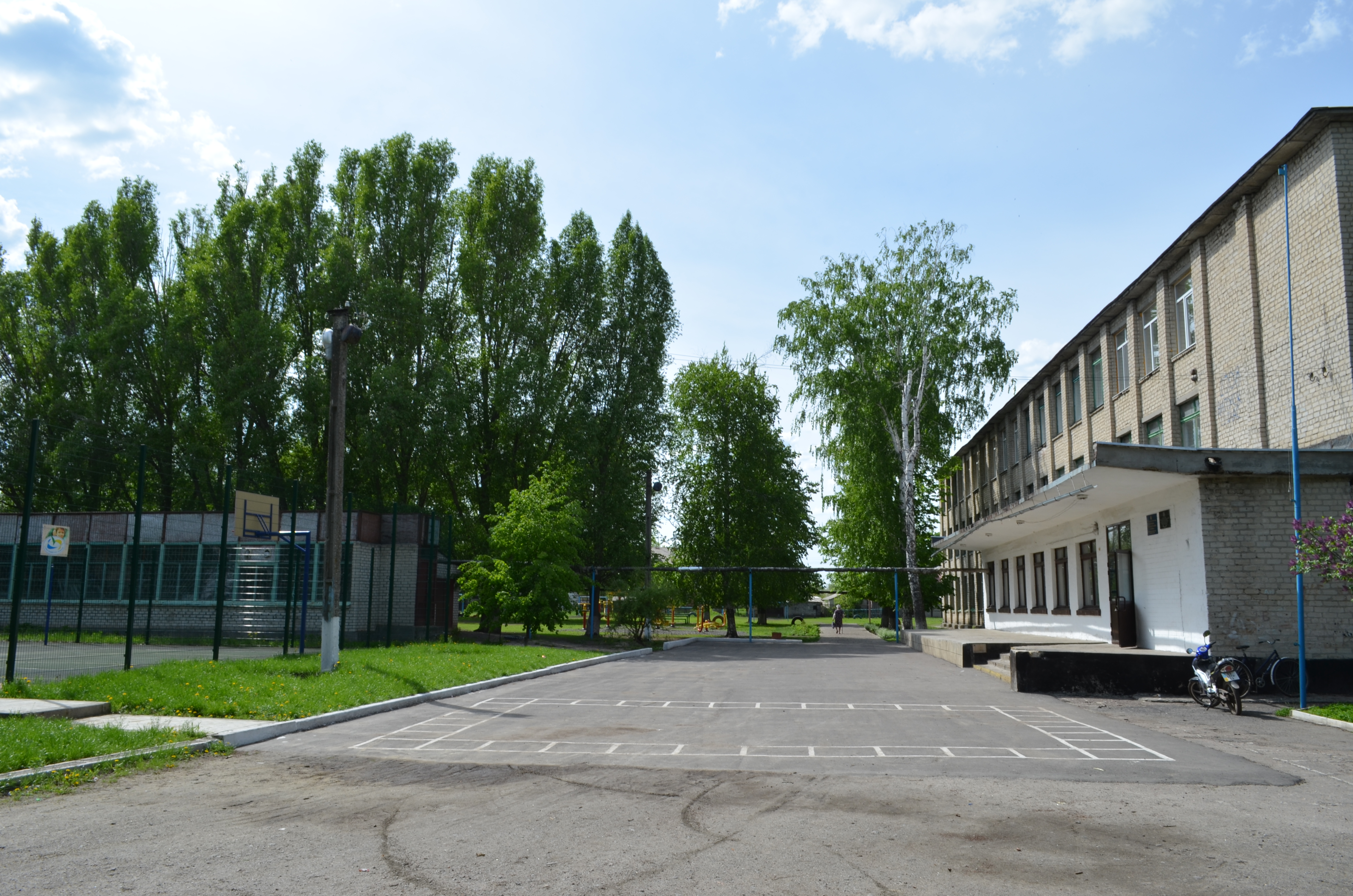 Shevchenkove School №1